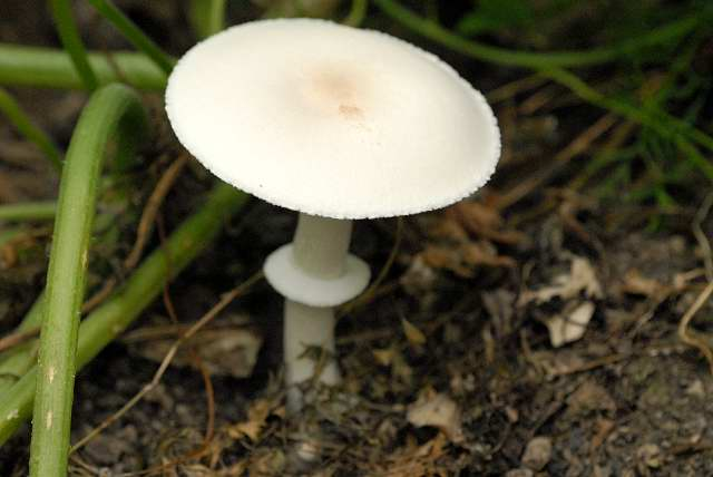 Leucoagaricus leucothites from Commanster, Belgium. The determination of the species shown in this picture has been verified.